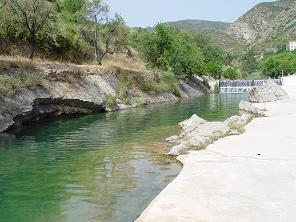 Zona de baño del río Sot al paso por el municipio de Sot de Chera (Valencia, España)